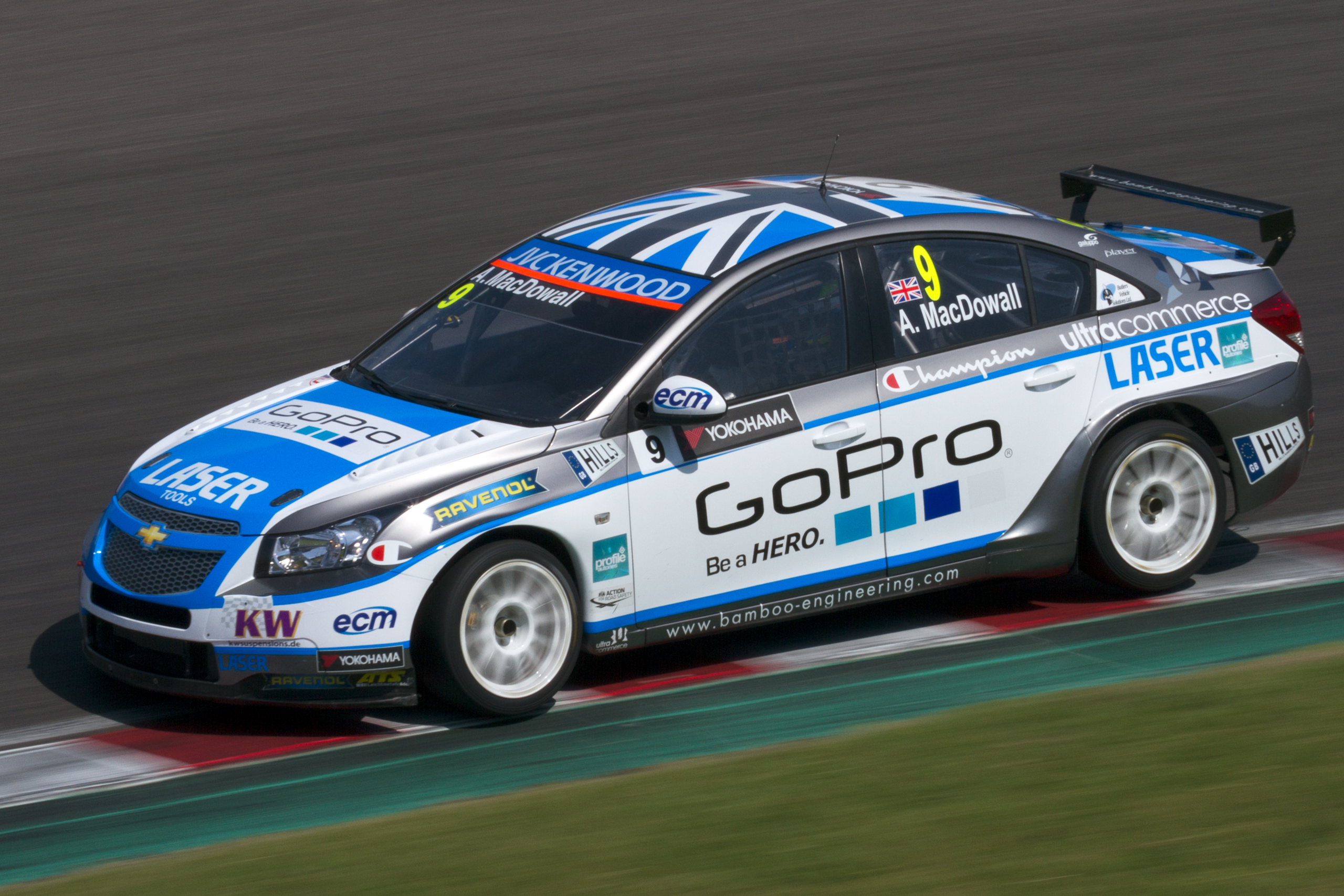 World Touring Car Championship 2013 Race of Japan: Alex MacDowall (bamboo-engineering)